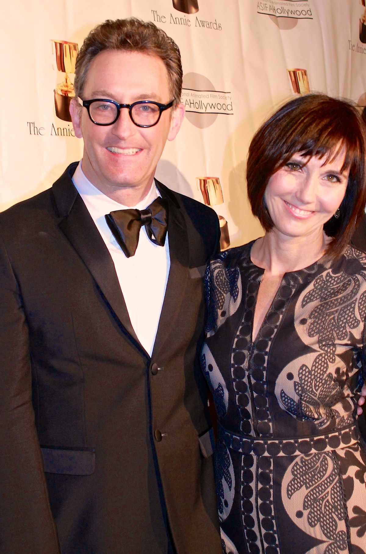 Annie Award winner Tom Kenny and wife, Jill Talley, at the 41st Annual Annie Awards.